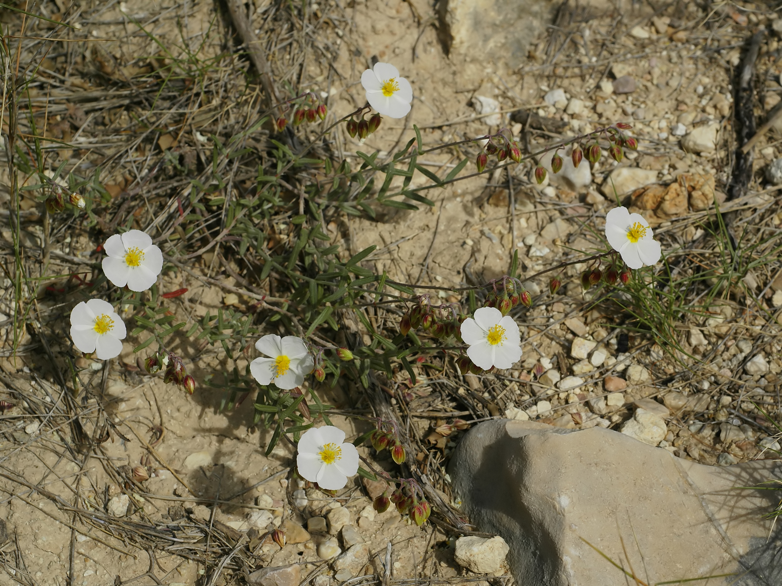 Male rosemary near el Perelló, Catalonia, Spain